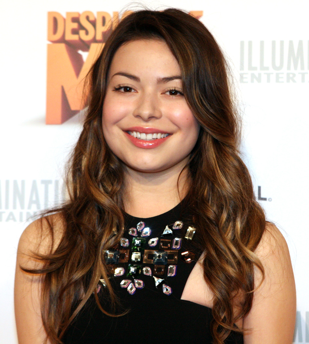 Miranda Cosgrove at the Despicable Me 2 red carpet movie premiere at Event Cinemas, Bondi Junction, Sydney, Australia 2013.